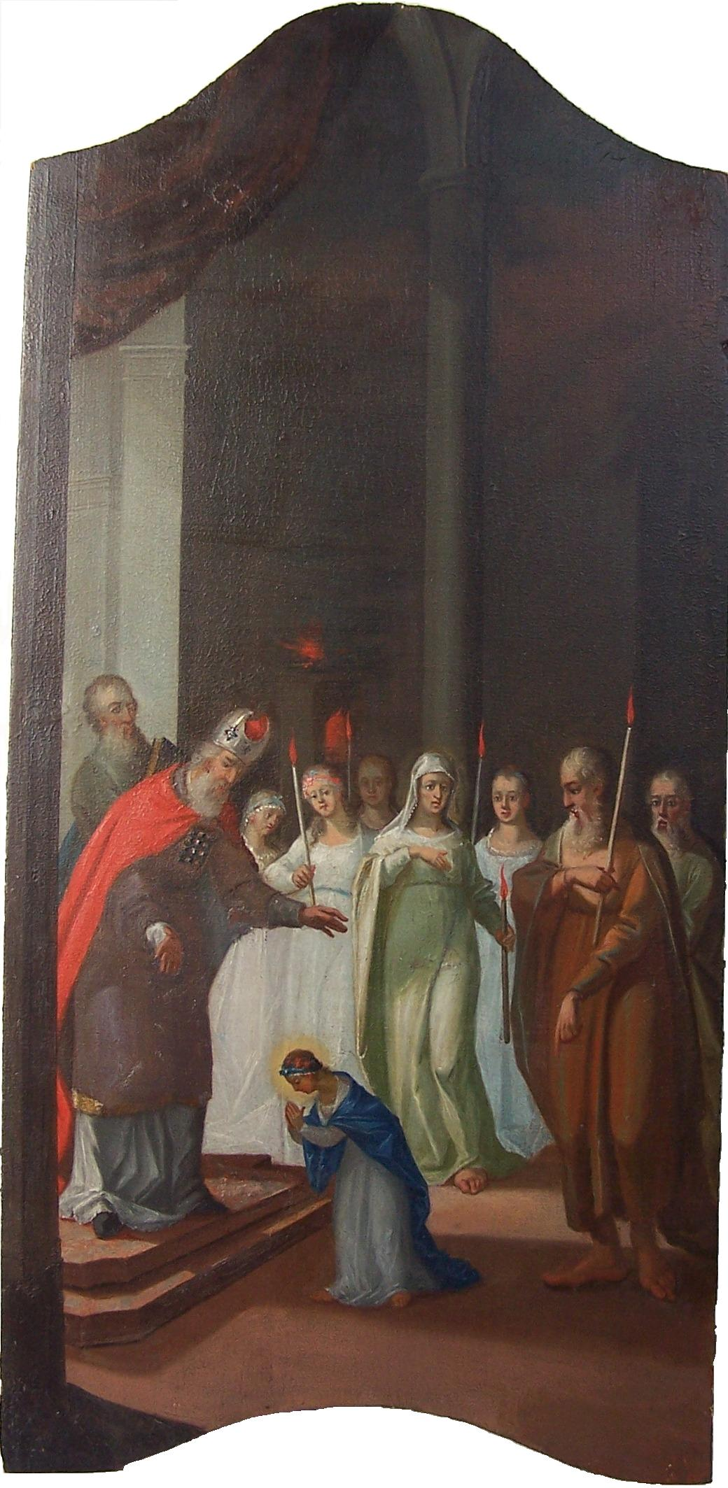 The picture is a Greek Catholic icon depicting the scene of the presentation of Mary. The icon was painted in the end of the 18th century as part of the iconostasis of the Greek Catholic Cathedral of Hajdúdorog, Hungary. This icon is placed on the first tier of the iconostasis, the so called Great Feasts tier. This icon is the second painting from the left.